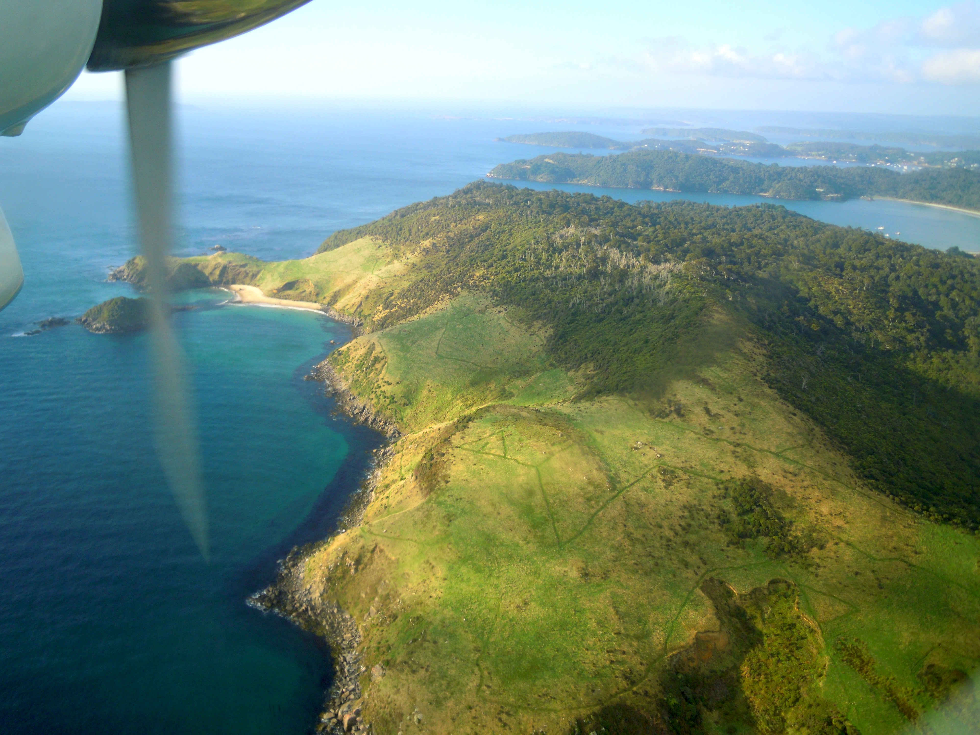 This photo was taken out of a window on a plane to Stewart Island in New Zealand. On the photo is Lee Bay first, then Horseshoe Bay behind that, and in the back you can see the opening of Halfmoon Bay.